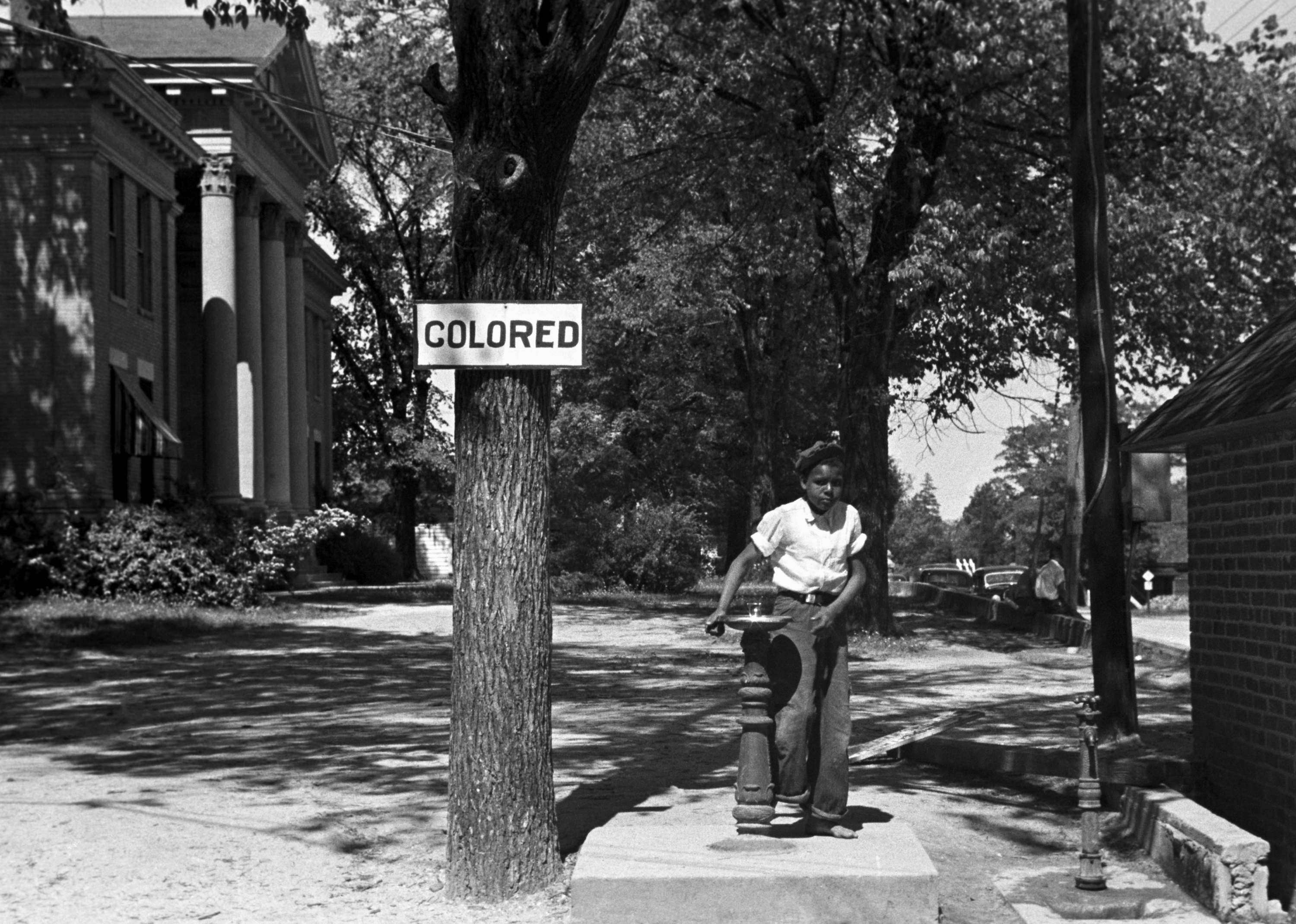 Drinking fountain on the Halifax County Courthouse (North Carolina) in April 1938. The first Halfax county courthouse was built in 1759. In 1847, the first courthouse was replaced by a second, which itself was replaced in 1910 by a third courthouse erected on the site of the second courthouse. The 1938 photo of the drinking fountain on the county courthouse lawn photo is of the 1910 courthouse. See Crittenden, Charles Christopher (1938) The historical records of North Carolina, 2, The North Carolina Historical Commission, pp. 235 Retrieved on 10 May 2009. A stone marker presently stands on the courthouse lawn where the photographed drinking fountain resided.